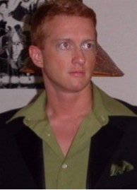 Vidkid Timo, dressed for a banquet which honored an associate of his. August 15 2003.